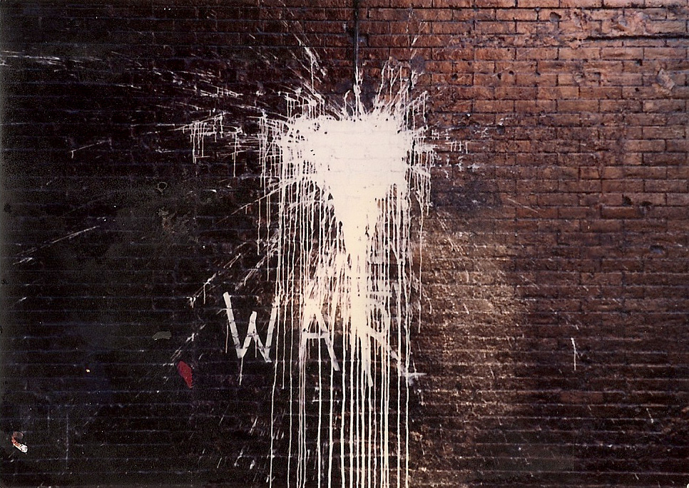 Jacek Tylicki street art war graffiti 1982 from: "make war in art not in reality"